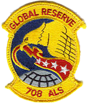 Emblem of the 708th Airlift Squadron (AMC)